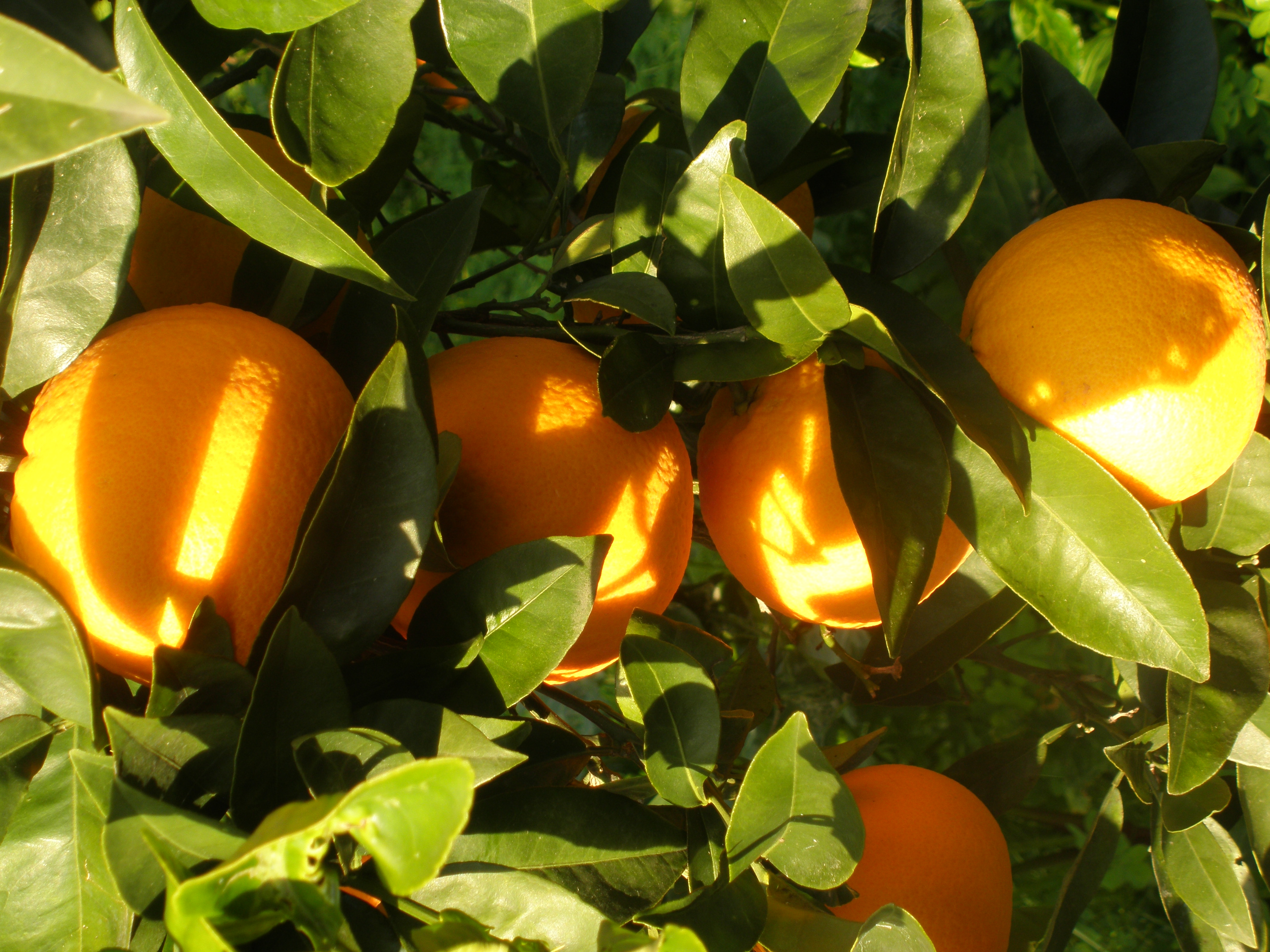 Orange of Ribera D.O.P.